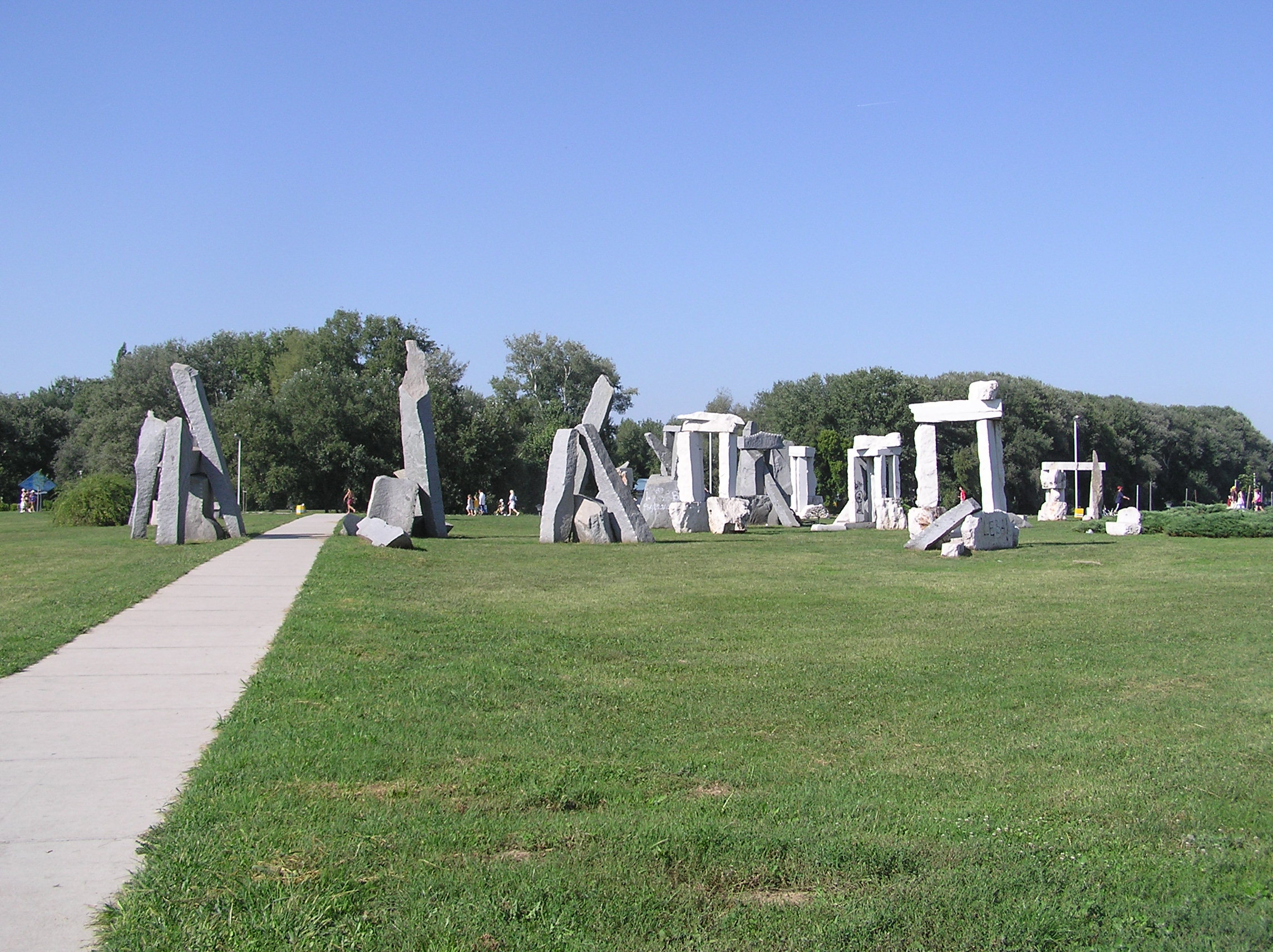 Ada Ciganlija, an island in the Danube river. The official name of the Stonehenge Sculptures is "Gates of Belgrade", also called "Stone Town" or the "Ada Stonehenge". Artist was Ratko Vulanovic.